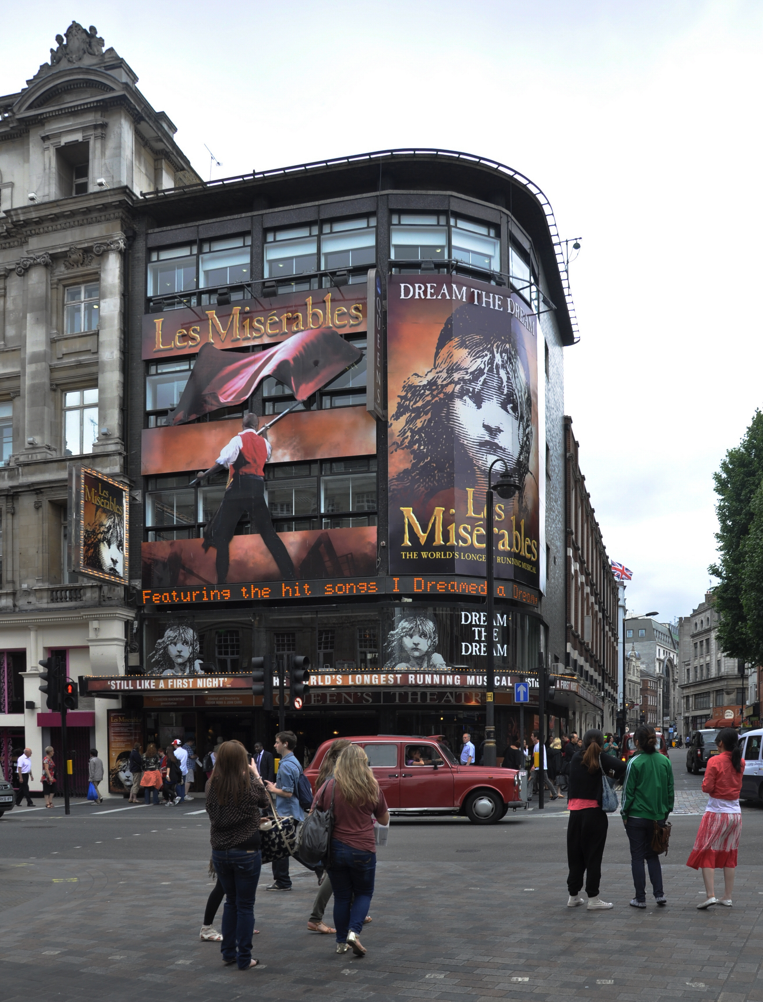 London, Queen's Theatre, showing the musical "Les Misérables"